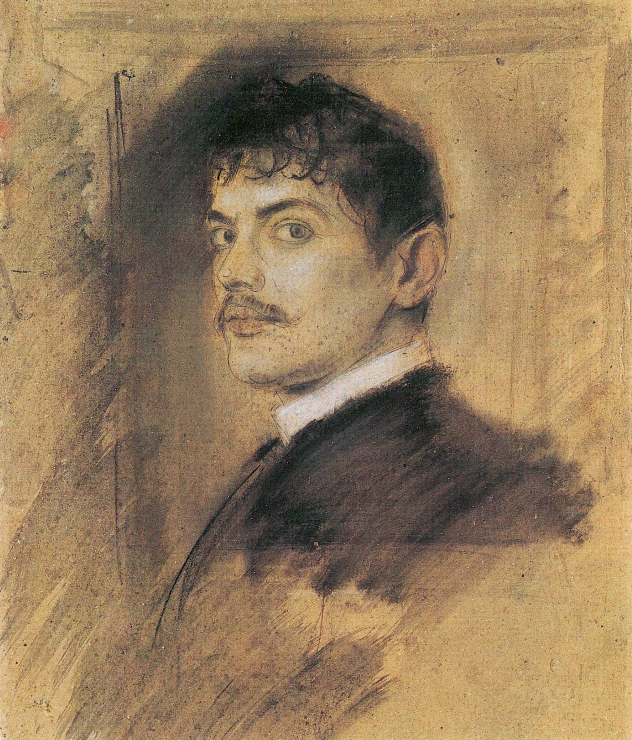 Franz von Lenbach. portrait of Franz von Stuck, 1892. Stuck-Jugendstil-Verein, Munich.